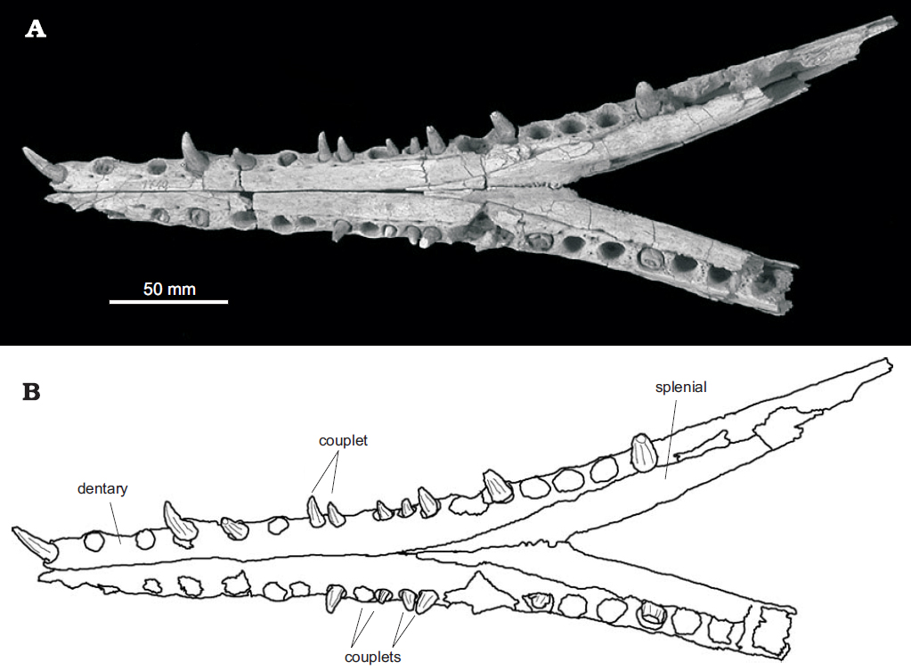 Holotype of Eosuchus lerichei Dollo, 1907. IRSNB R 48, Jeumont, France, late Paleocene, lower jaw in dorsal view (A) and explanatory drawing of the same (B).